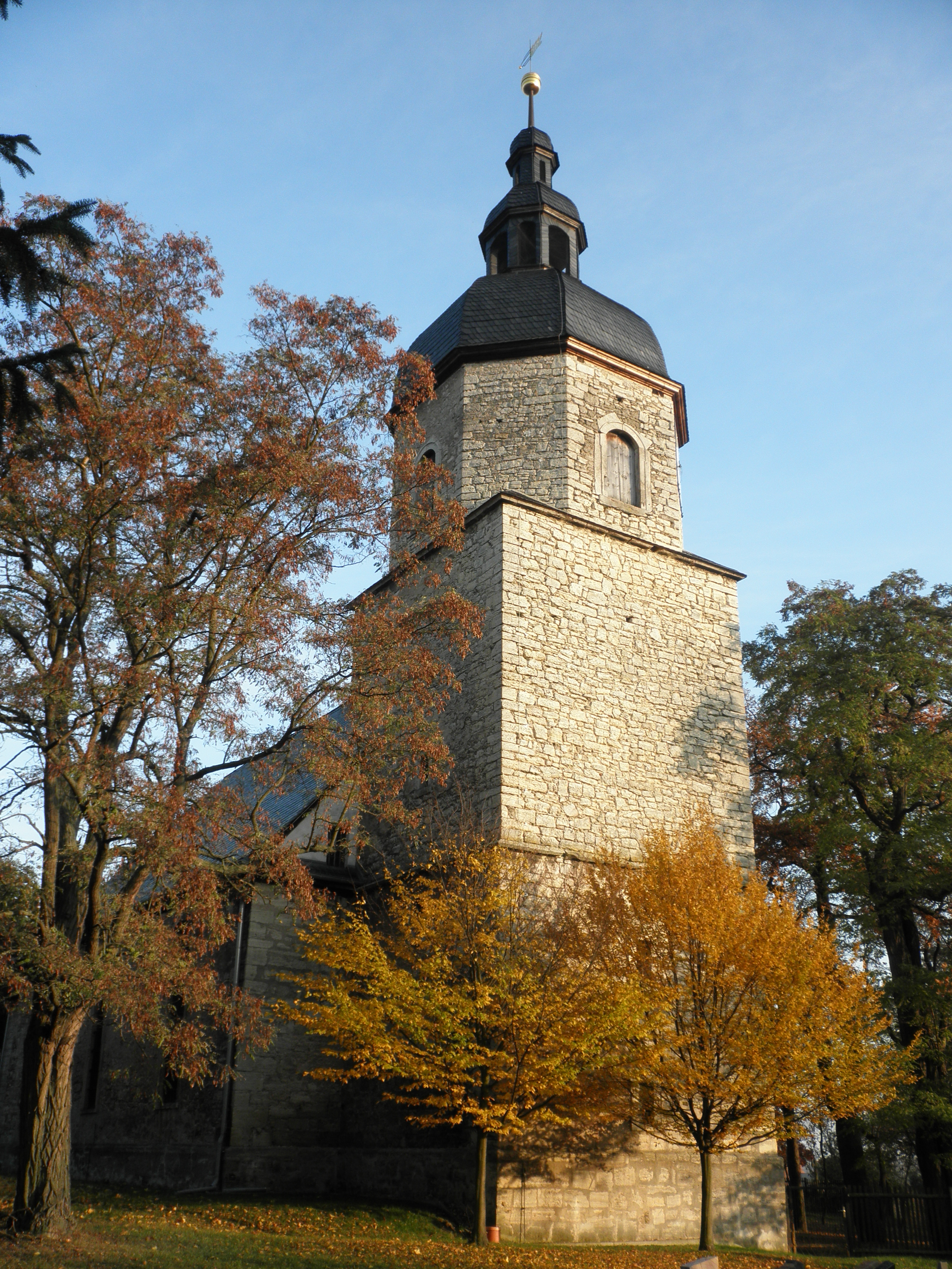 Church in Günstedt in Thuringia